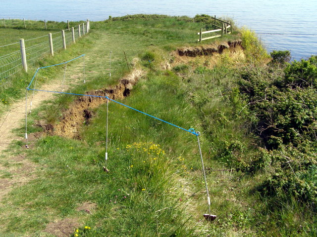 Slipping clifftop, Bran Point The coast path from Osmington Mills to Ringstead follows the cliff-top, and this section has fairly recently slipped. It is possible to walk along the shore between Osmington Mills and Ringstead if tide and weather allows. The left turn up ahead is at Bran Point.